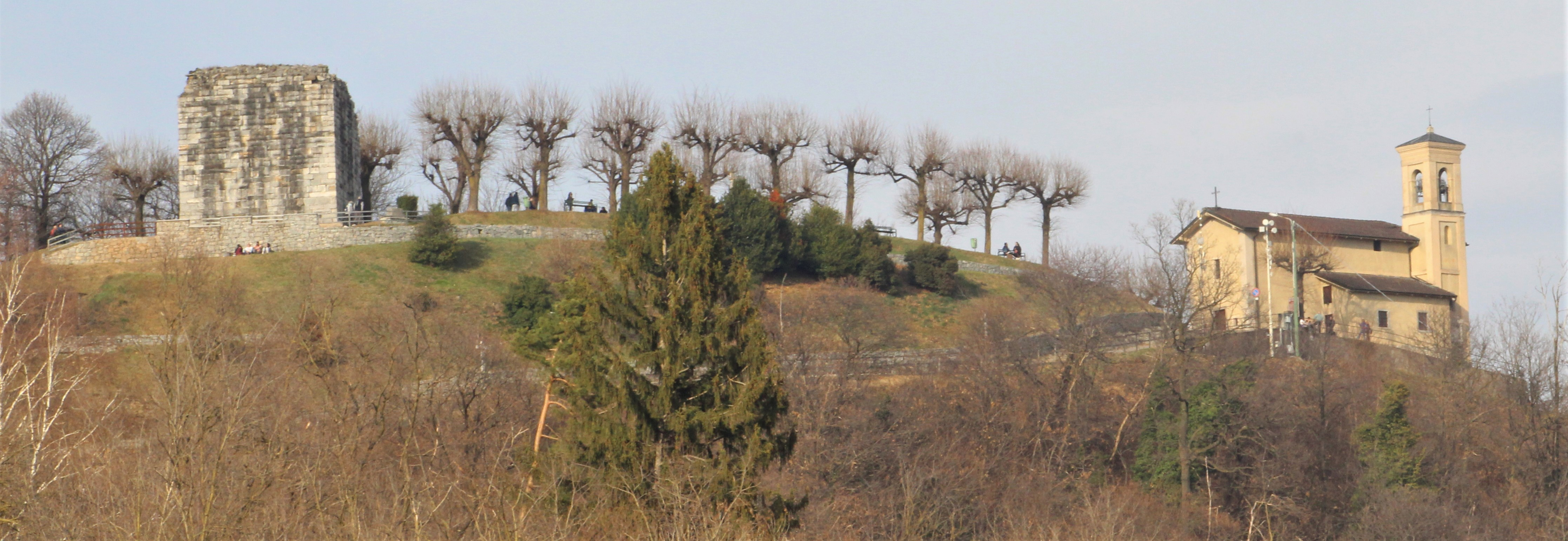 Rodero - San Maffeo (view)